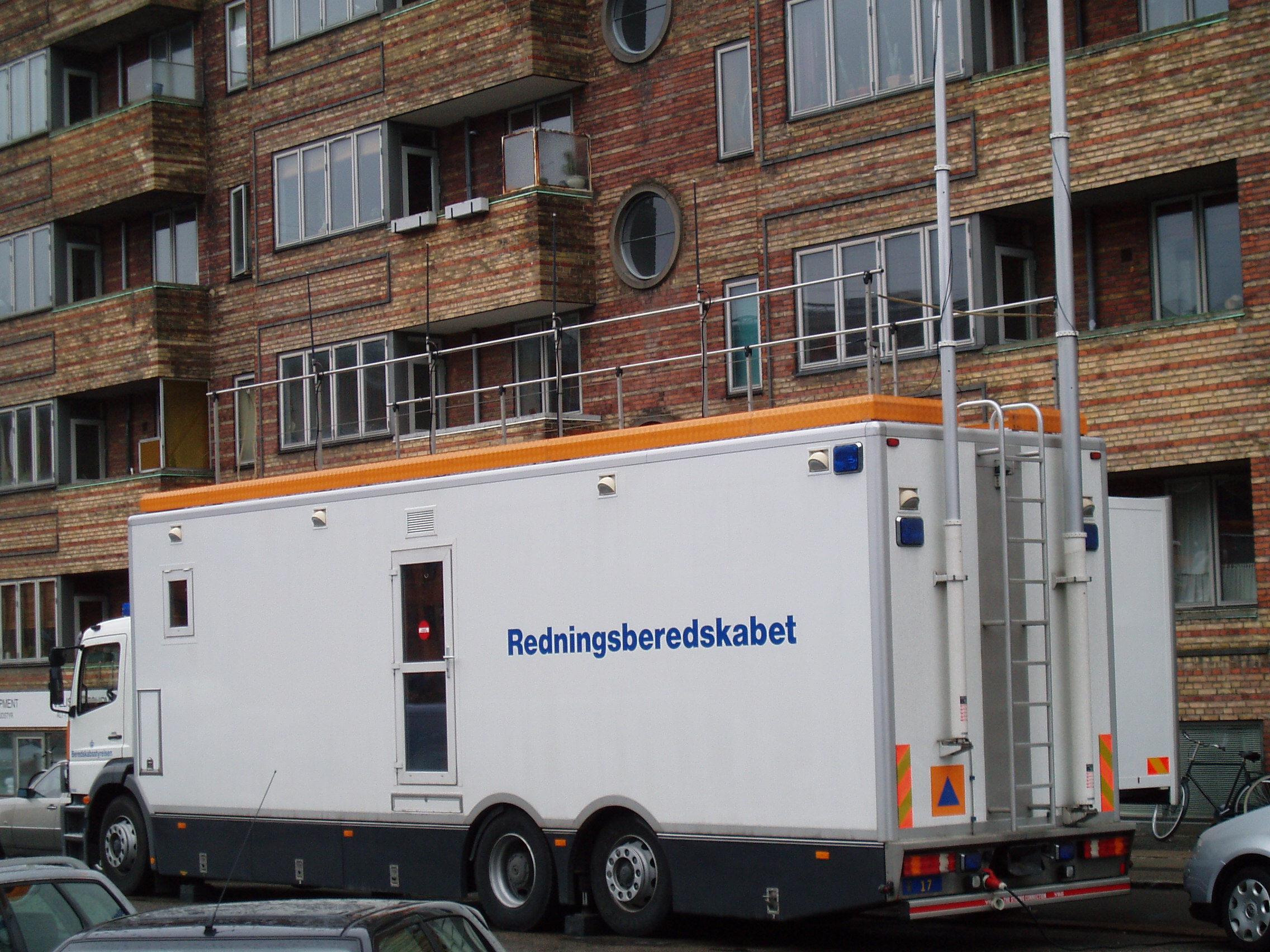 LKM module of the Danish Emergency Management Agency parked in Ourøgade, Copenhagen during a full-scale terror exercise. "LKM" is a Danish abbreviation for "Command and Communication Module". The unit is among others carrying a great deal of radios and is used as a command unit by the emergency services during large indidents.